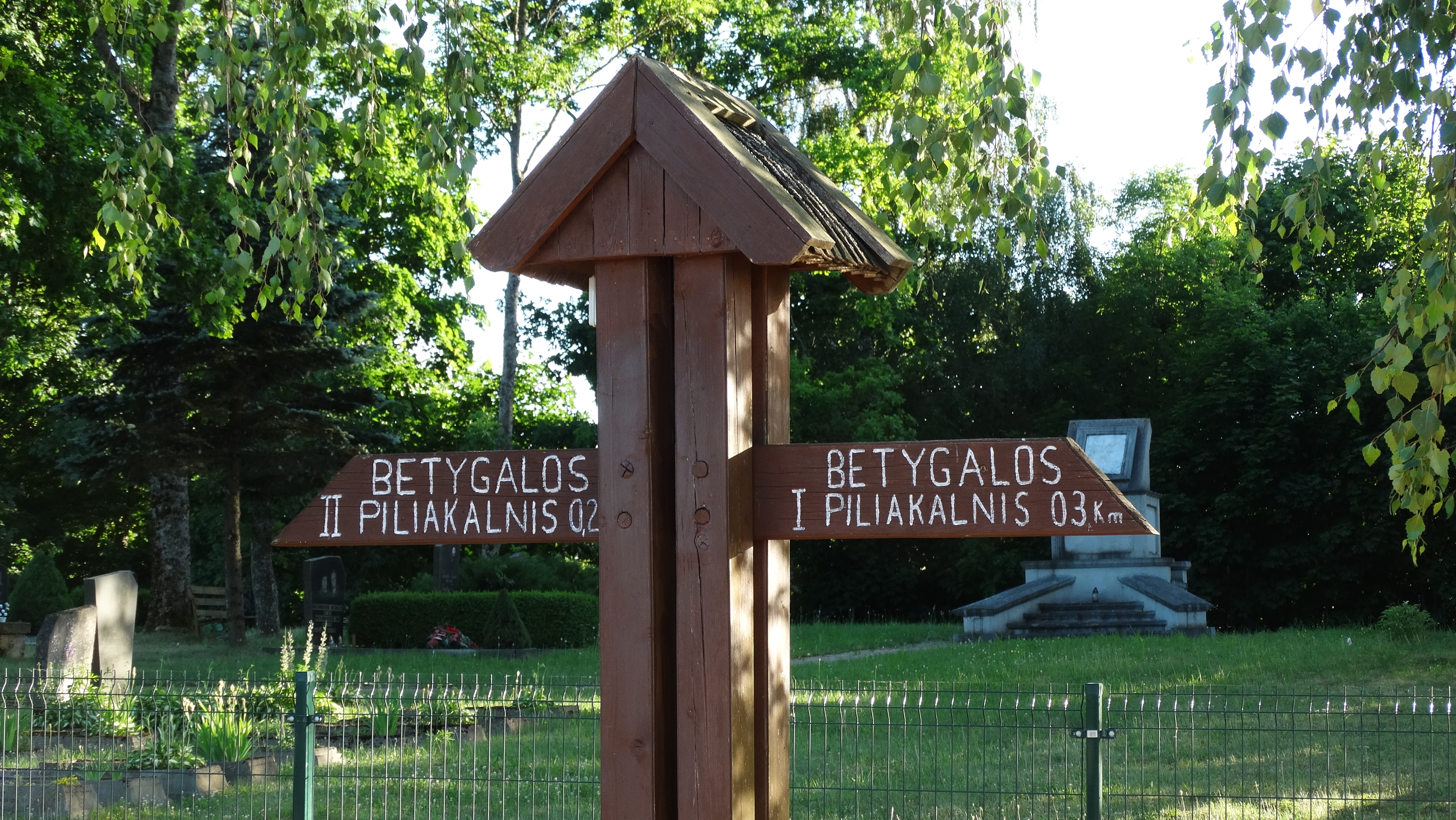 Pointer in Betygala cemetery, Raseiniai district, Lithuania